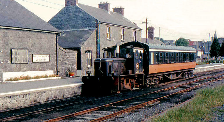 Loughrea station (5). G616 at Loughrea with the 20.10 to Attymon Jct – the classic Loughrea scene.